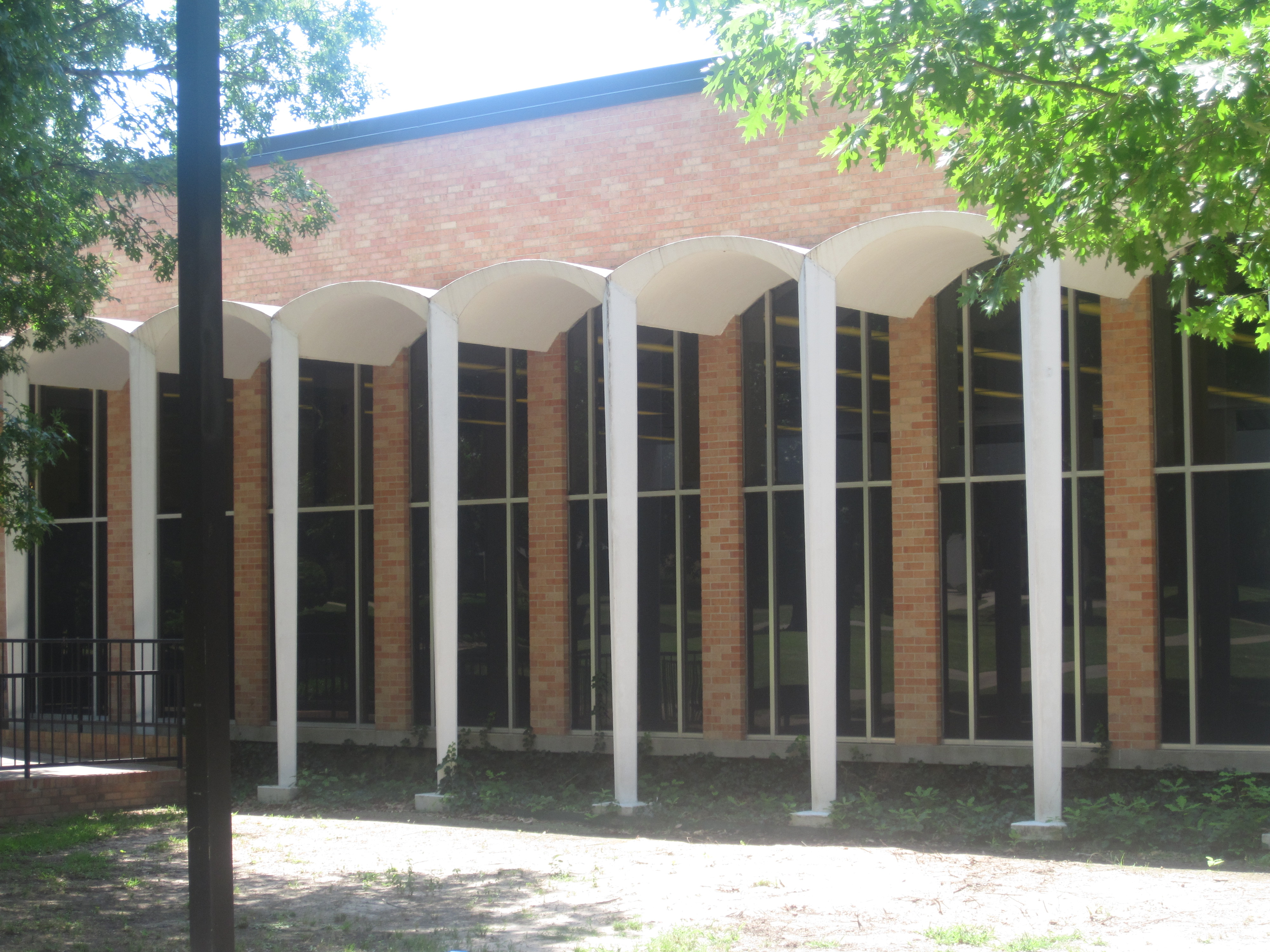 I took photo with Canon camera at LeTourneau University in Longview.